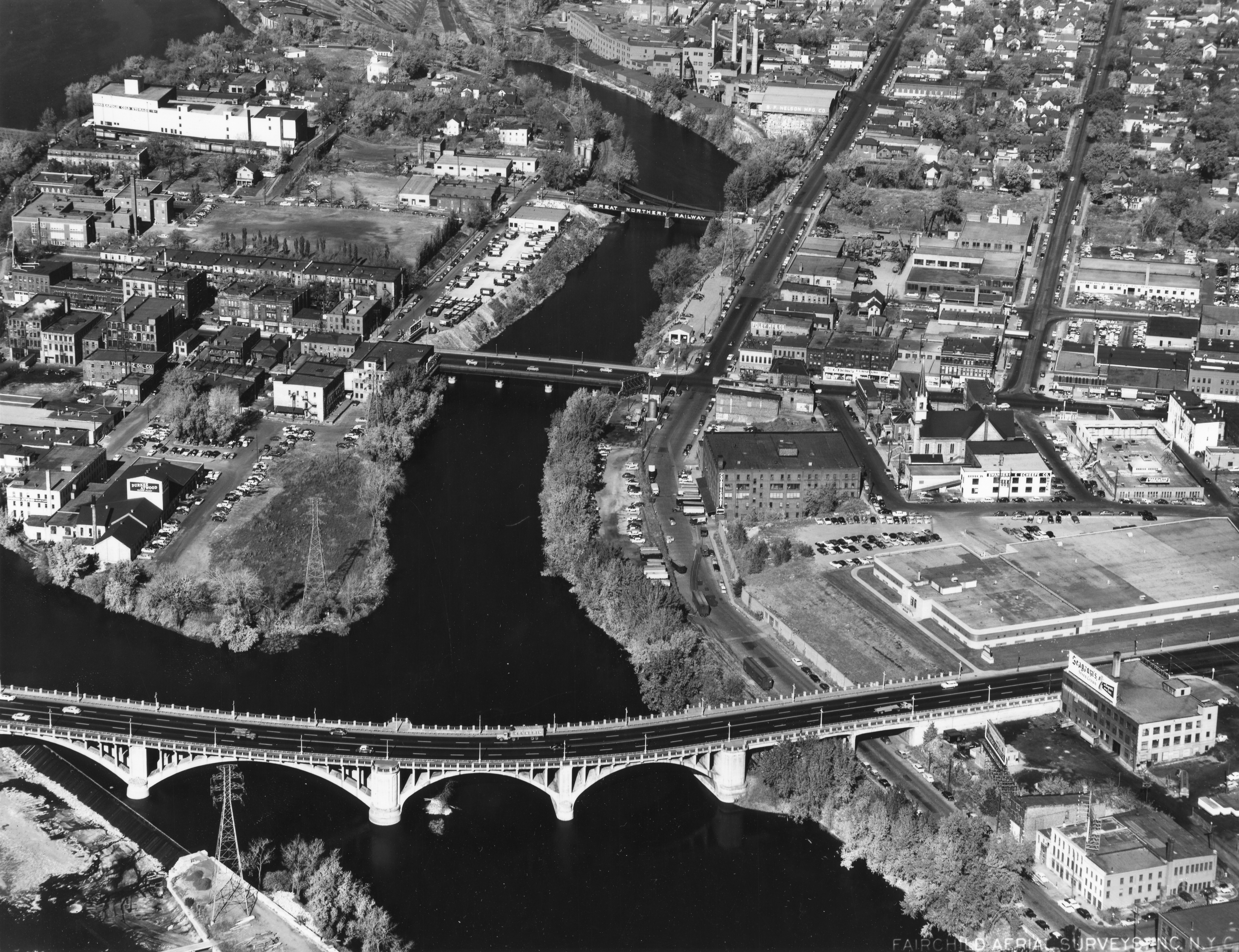 Nicollet Island and environs. Notably missing today: Eastman Flats, above Hennepin bridge; Minneapolis Cold Storage, above Northern Pacific tracks; Coca Cola plant, lower right (site of original Winslow House hotel, then Exposition Building). Notably remaining: Nicollet Island Inn (former Island Sash and Door plant, below Hennepin bridge), Grove Street Flats (across from Mpls Cold Storage), Lourdes Church and Kaplan Furniture building (above Coke plant). ca. 1955